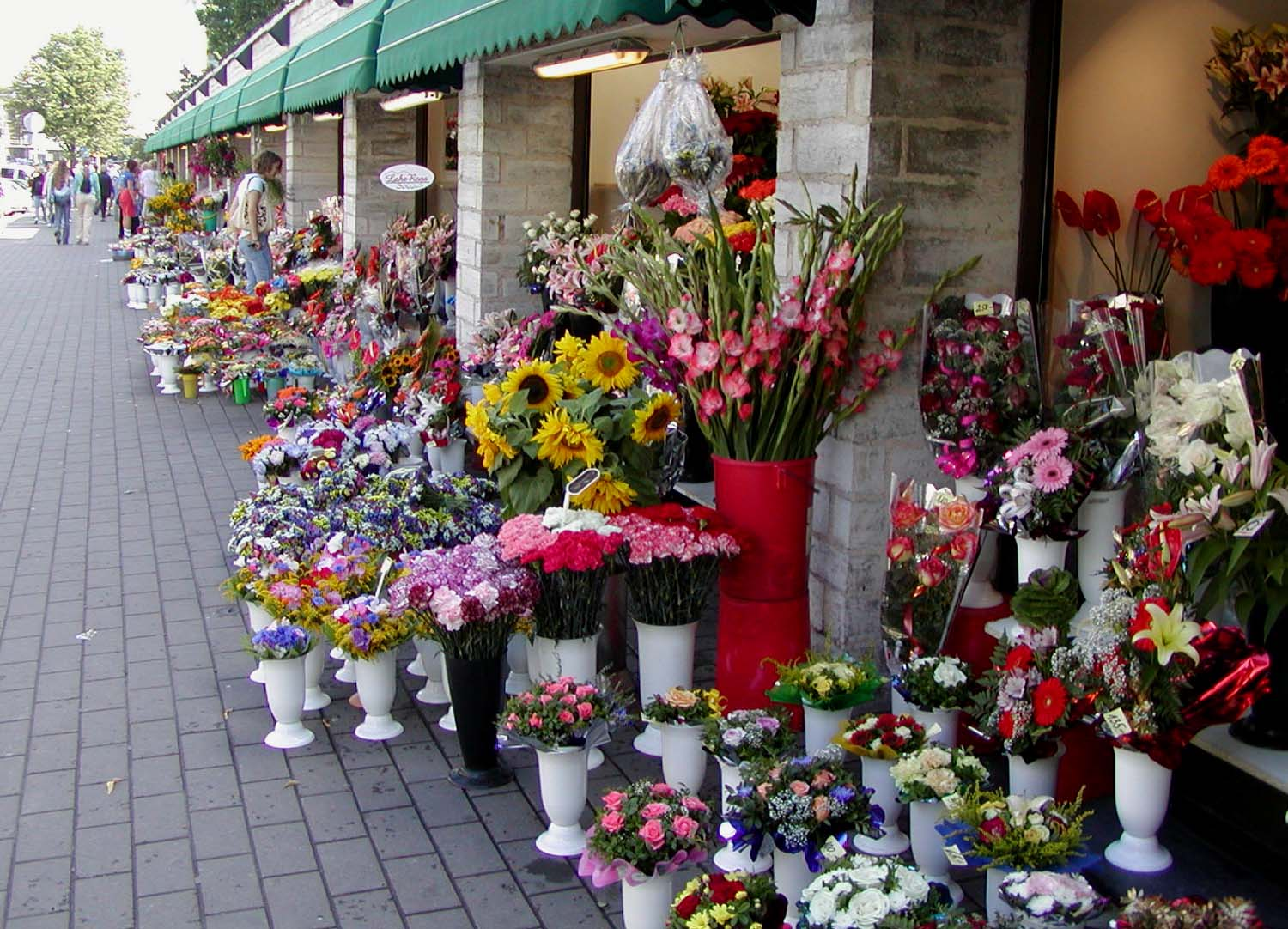 Photo of Tallinn flower market